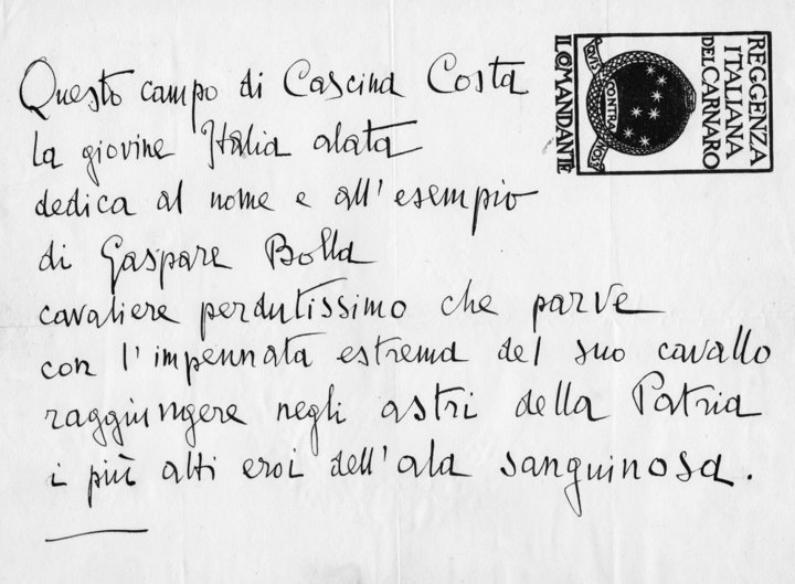 Epigraph in memory of Gaspare Bolla (Pieveottoville, july, 28 1874 – Gris, july 18 1915), Italian knight and aviator.